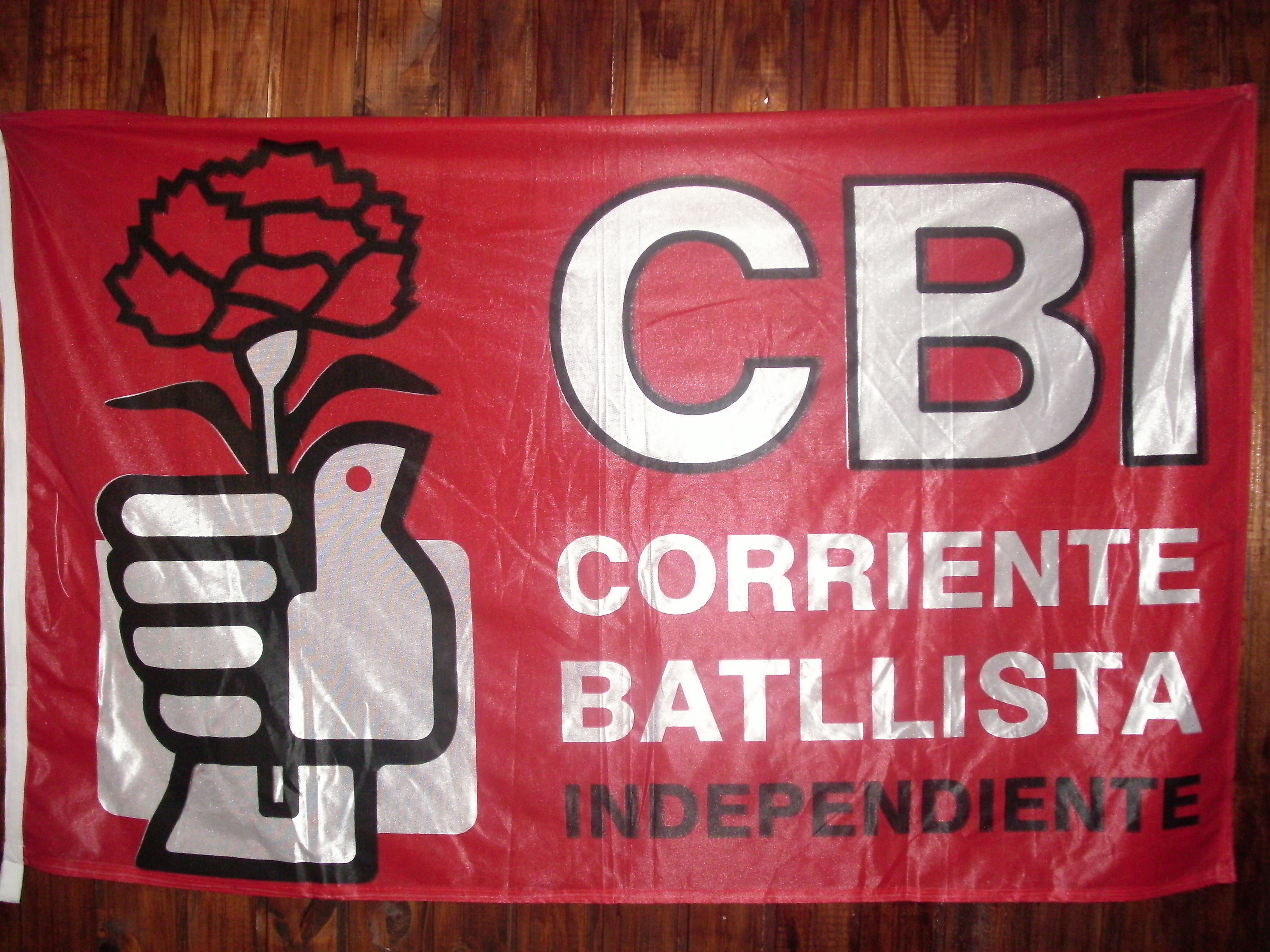 Banner with Corriente Batllista Independiente's logo